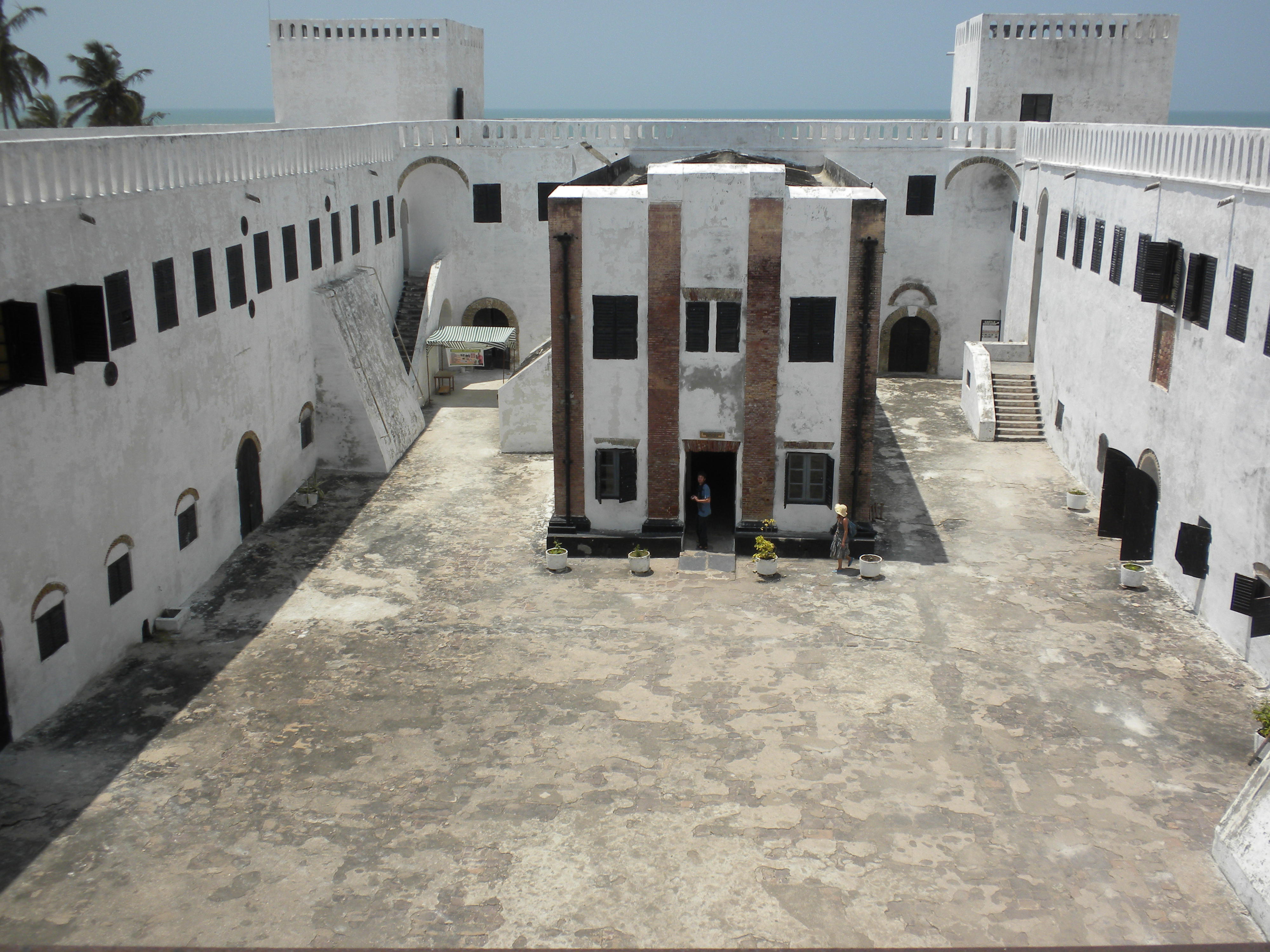 Elmina, Fort São Jorge da Mina, courtyard